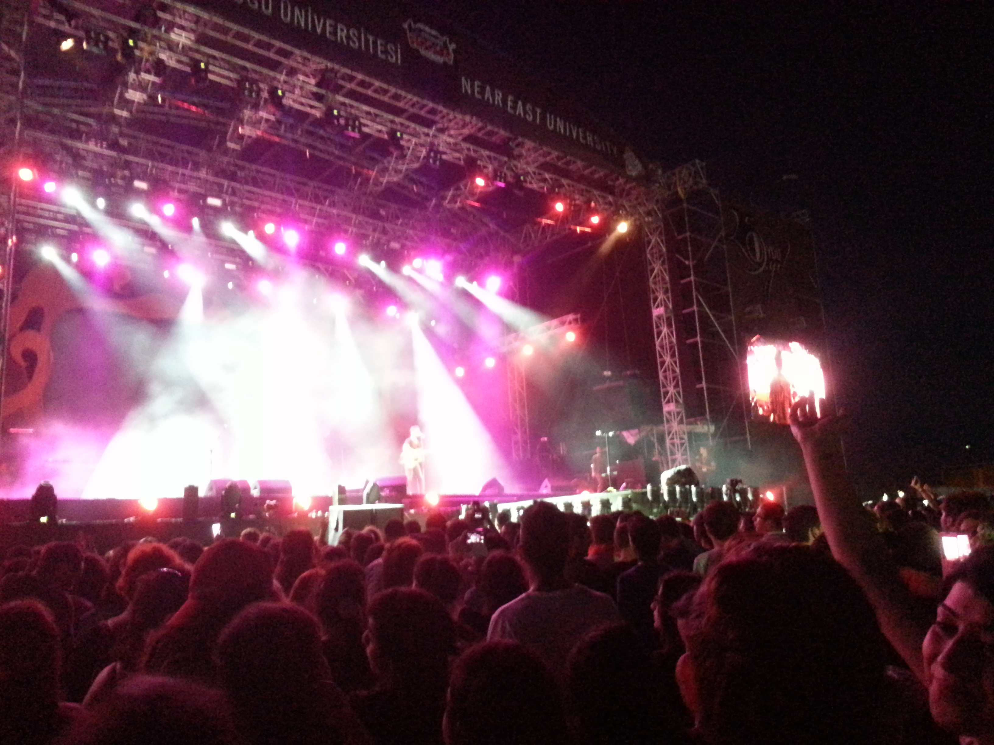 The Rock 'n Cyprus festival 2014 in NEU, North Nicosia, with the Şebnem Ferah concert.